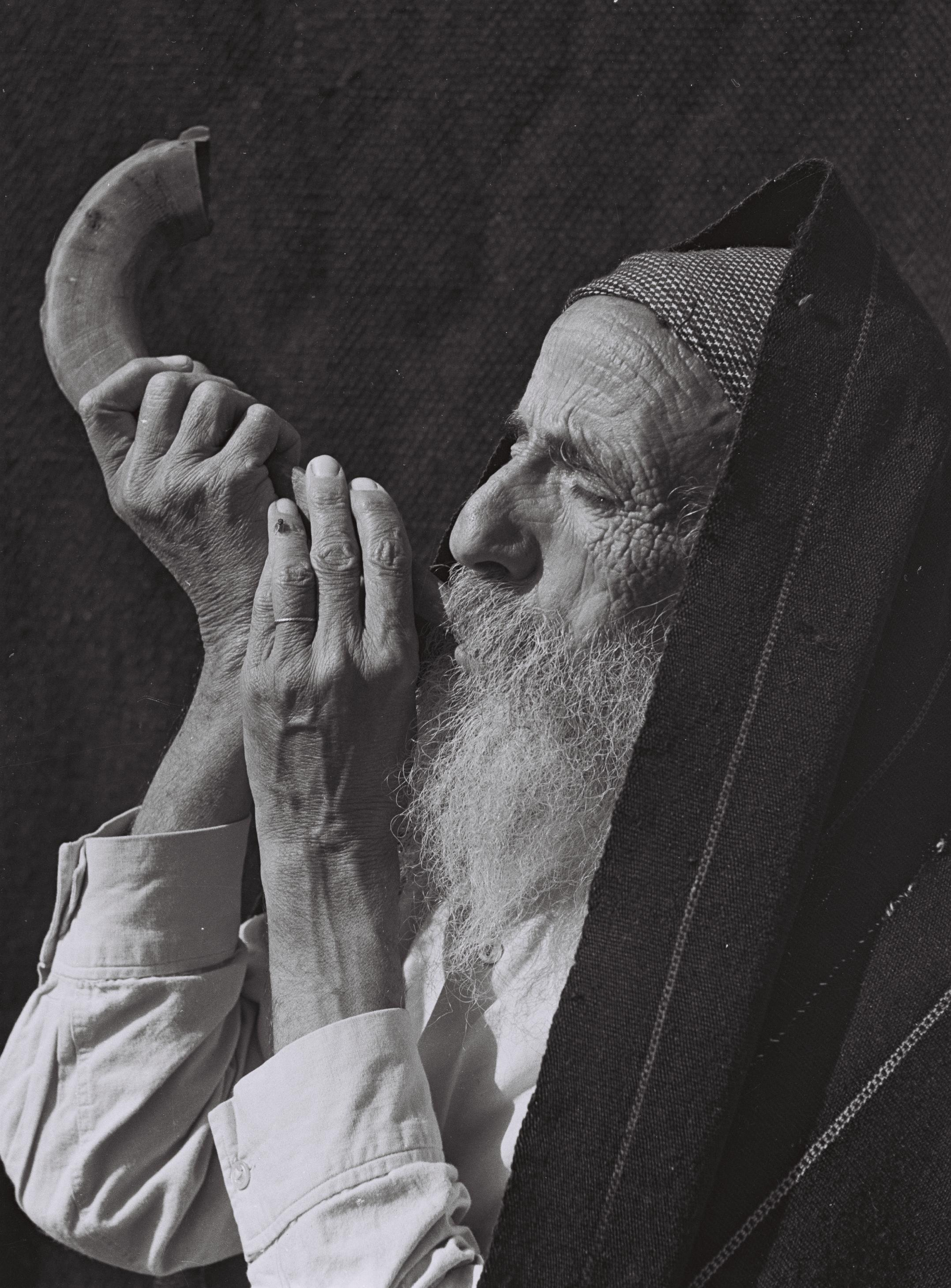 An old Yemenite man blowing the shofar.